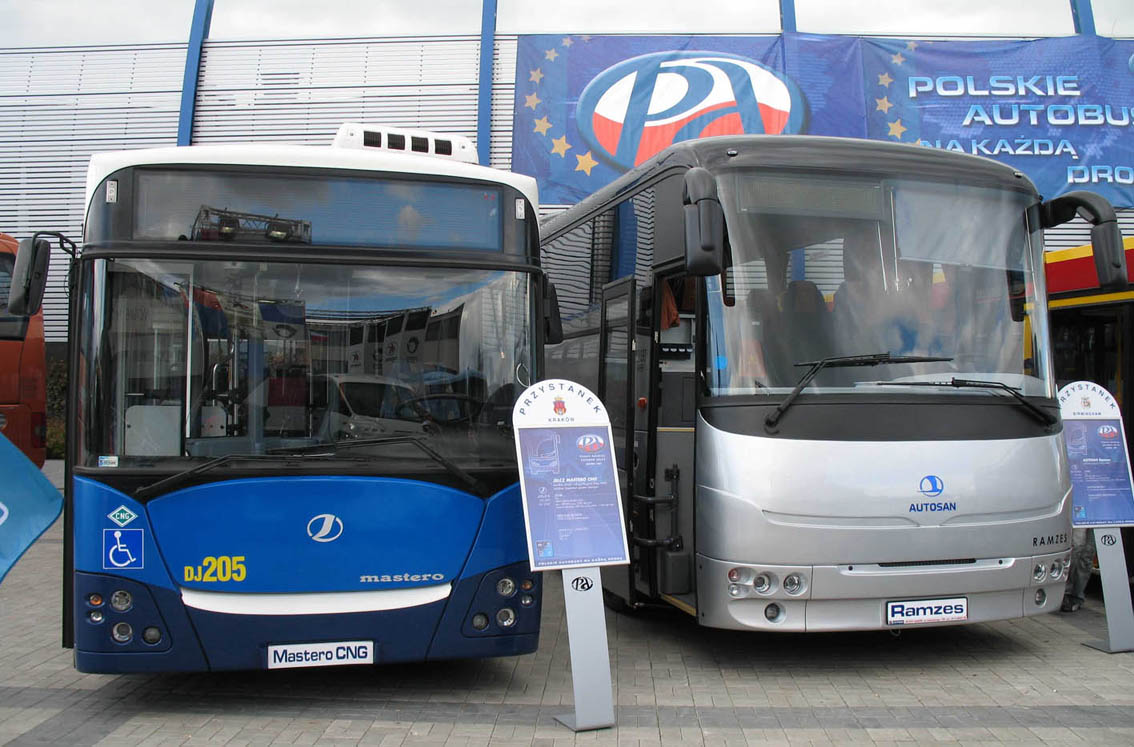 From left to right: Jelcz M121M/4 Mastero CNG bus (built 2006, #DJ205) belongs to MPK Kraków and Autosan A1112T Ramzes bus (built 2007, from 2008 belongs to Veolia Transport Podkarpacie) in Kielce, Poland, Transexpo 2007.